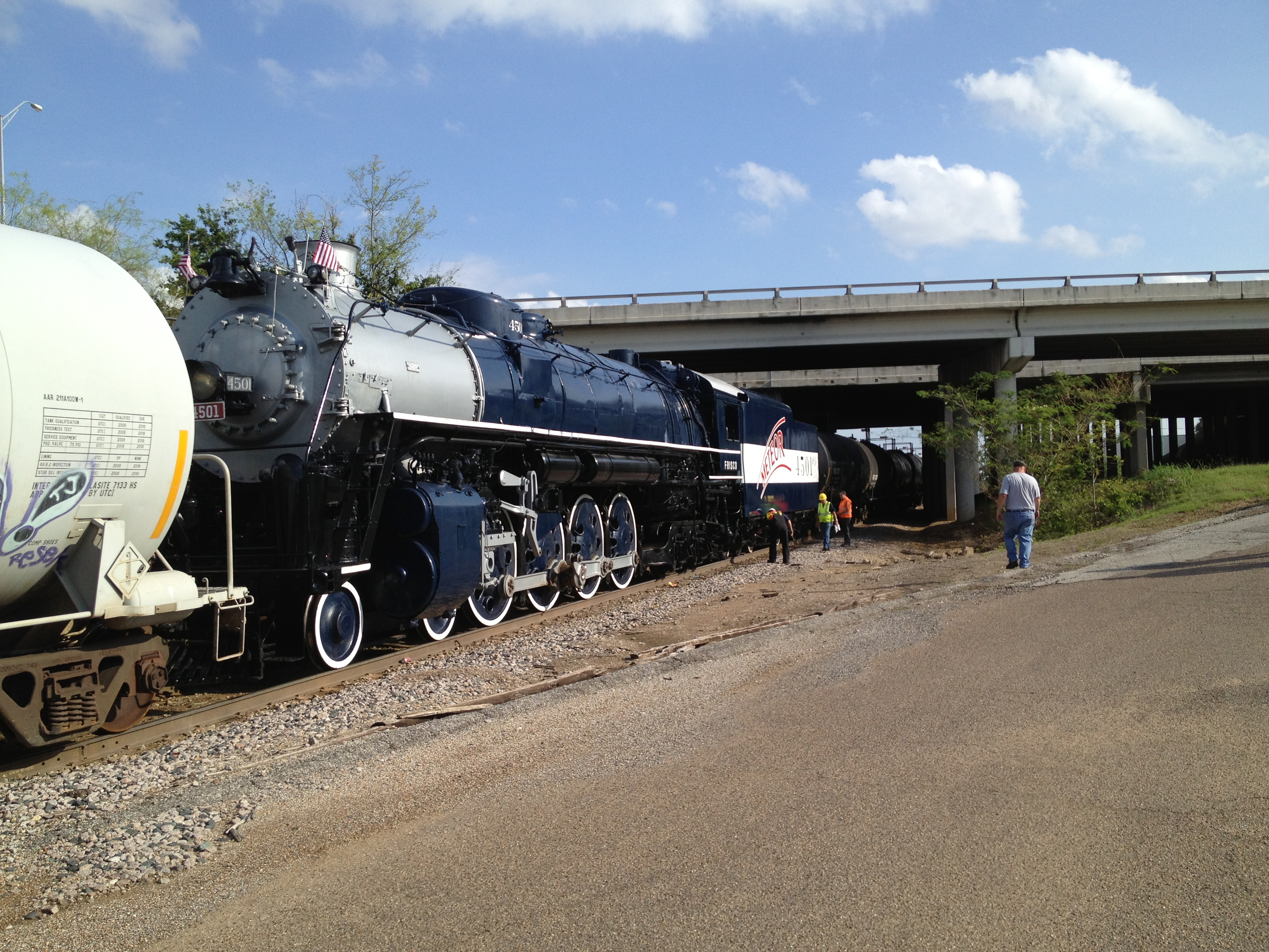 Frisco 4501 during move from Fair Park in Dallas, TX to new museum site in Frisco, Texas